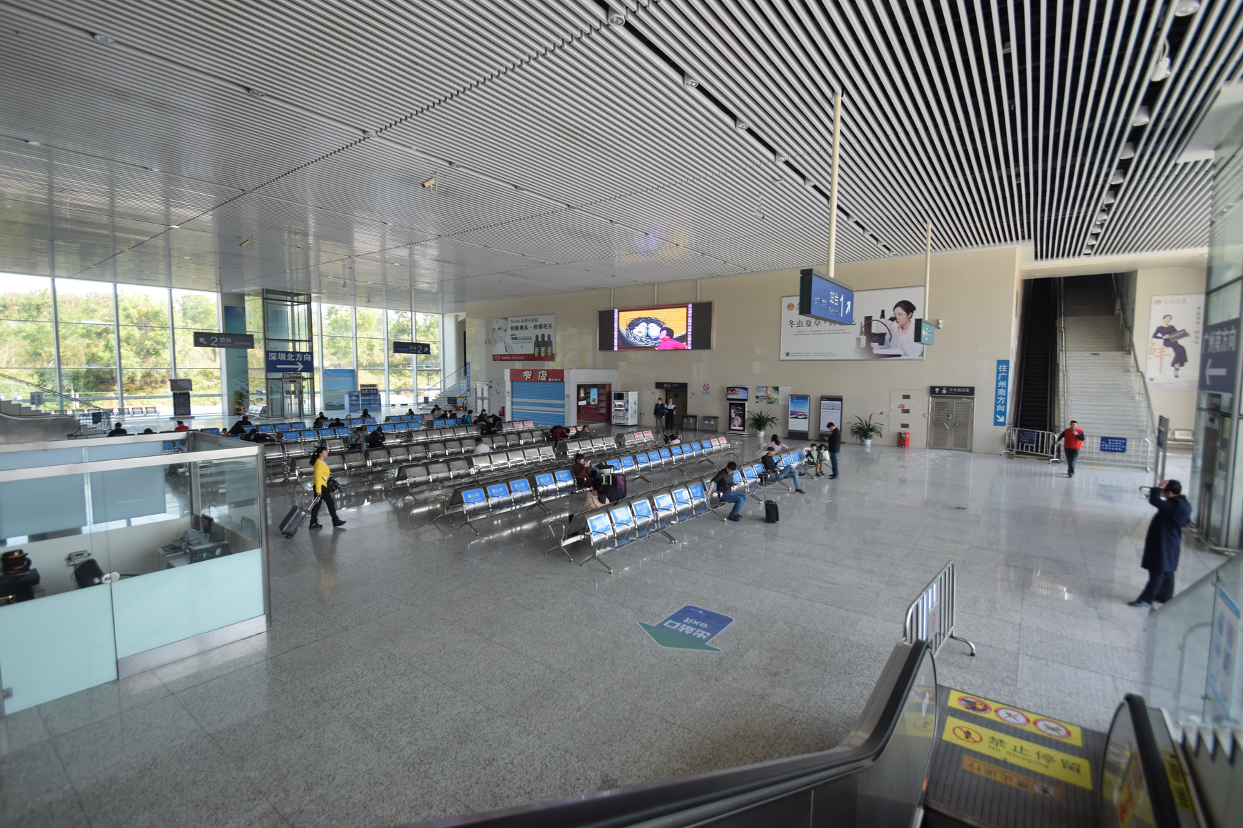 Concourse of Guangmingcheng Railway Station